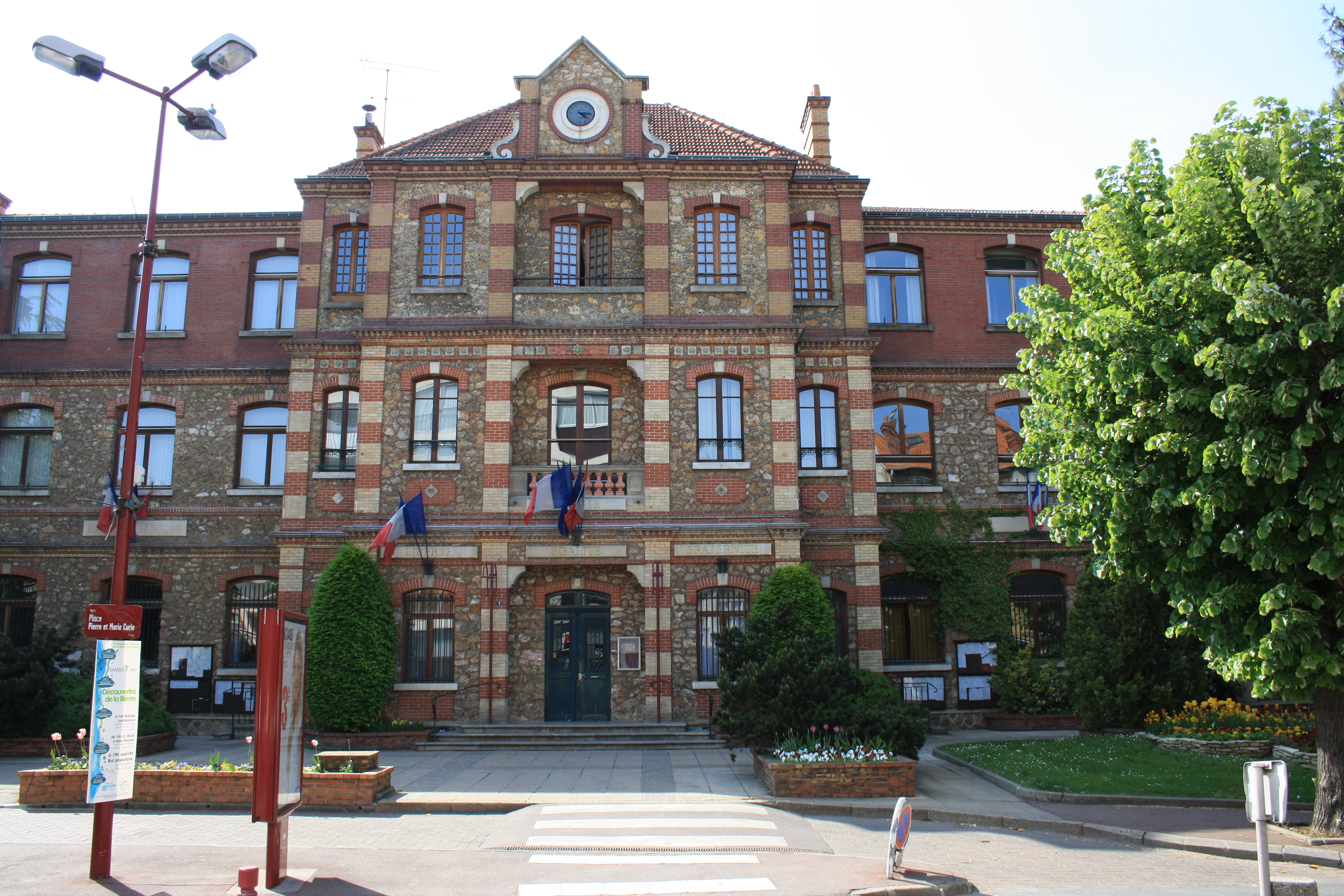 Town hall in Fresnes near Paris, France